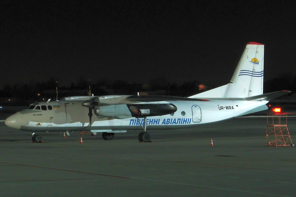 Aircraft Antonov An-24, involved in the crash 2013/02/13